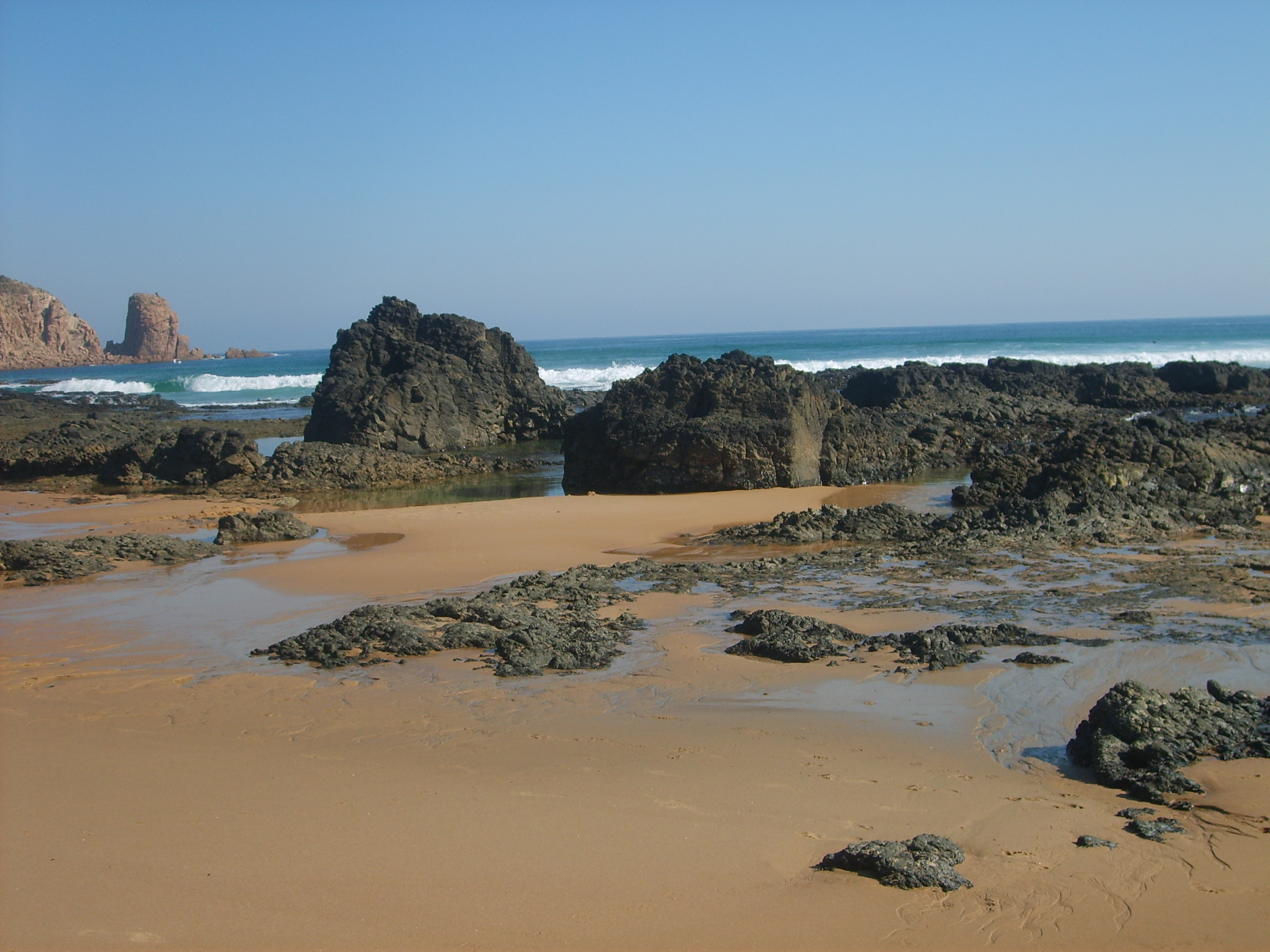 Some rocks on some beach.